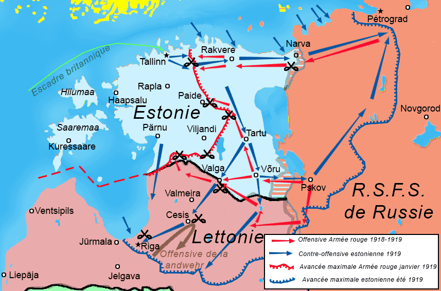 Battles of the indepedence war of Estonia 1918-1919